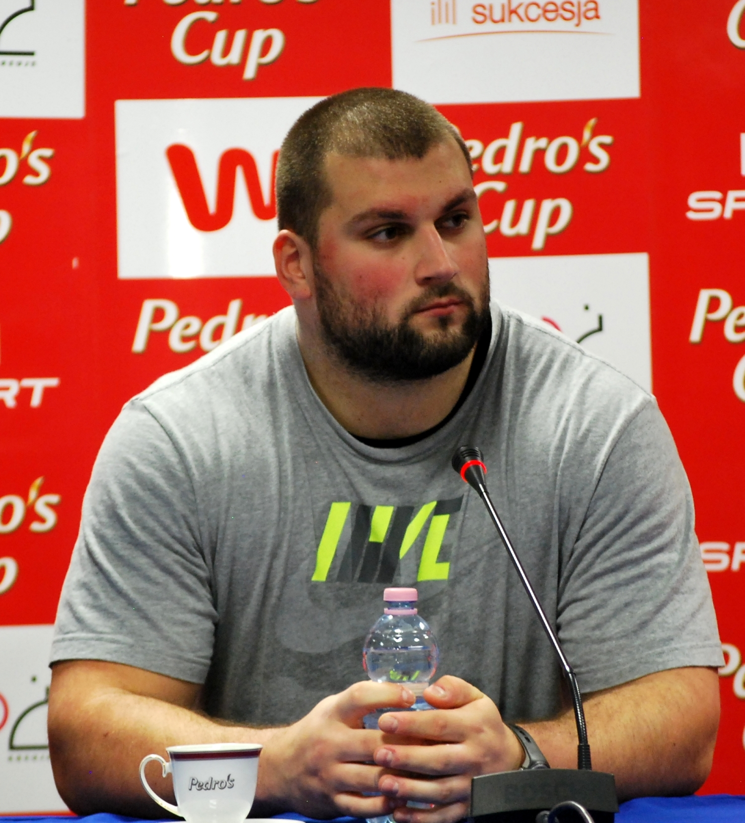 Michał Haratyk, shot putter from Poland, Pedro's Cup Łódź 2016